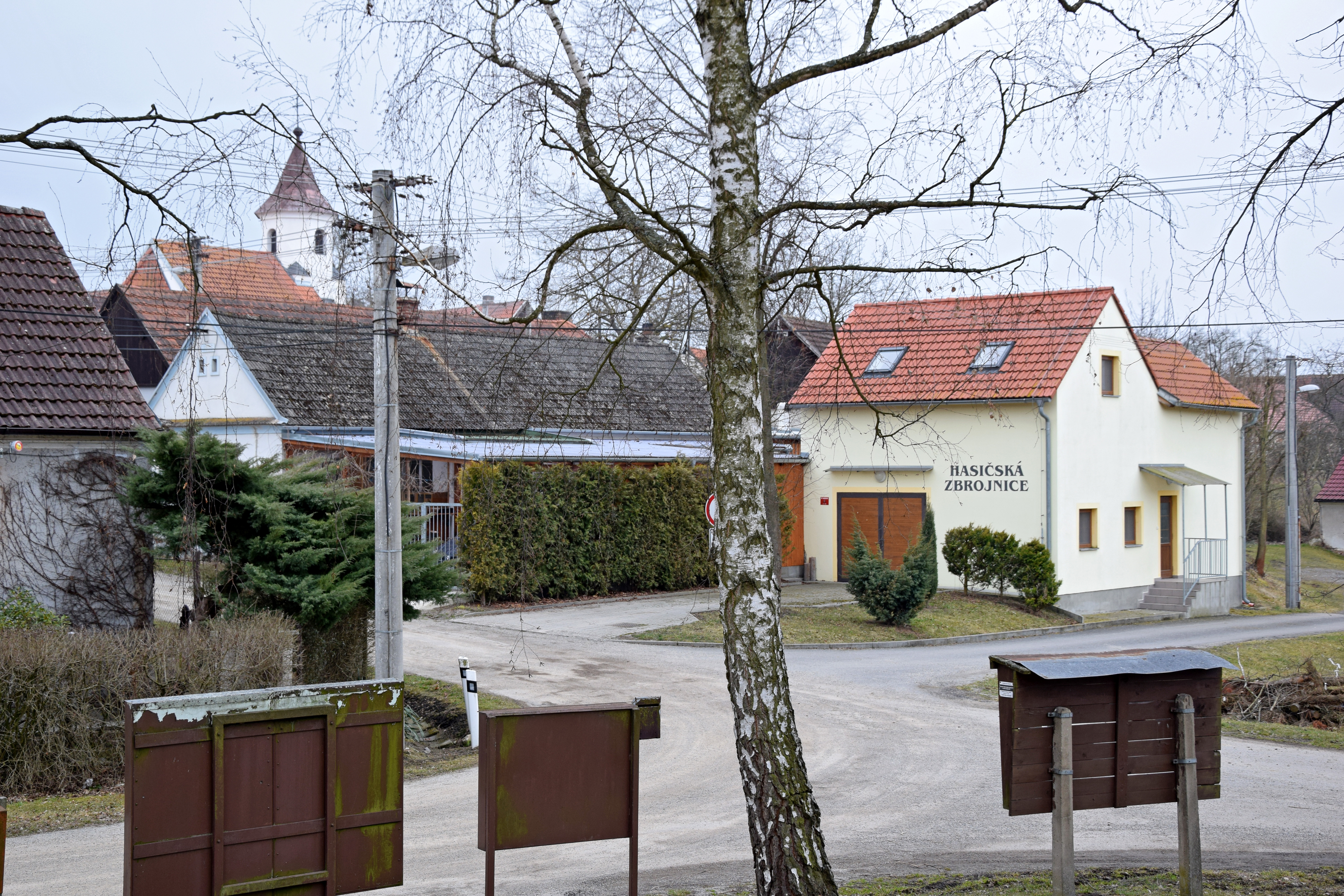 The village of Hroznějovice, České Budějovice District, the Czech Republic.